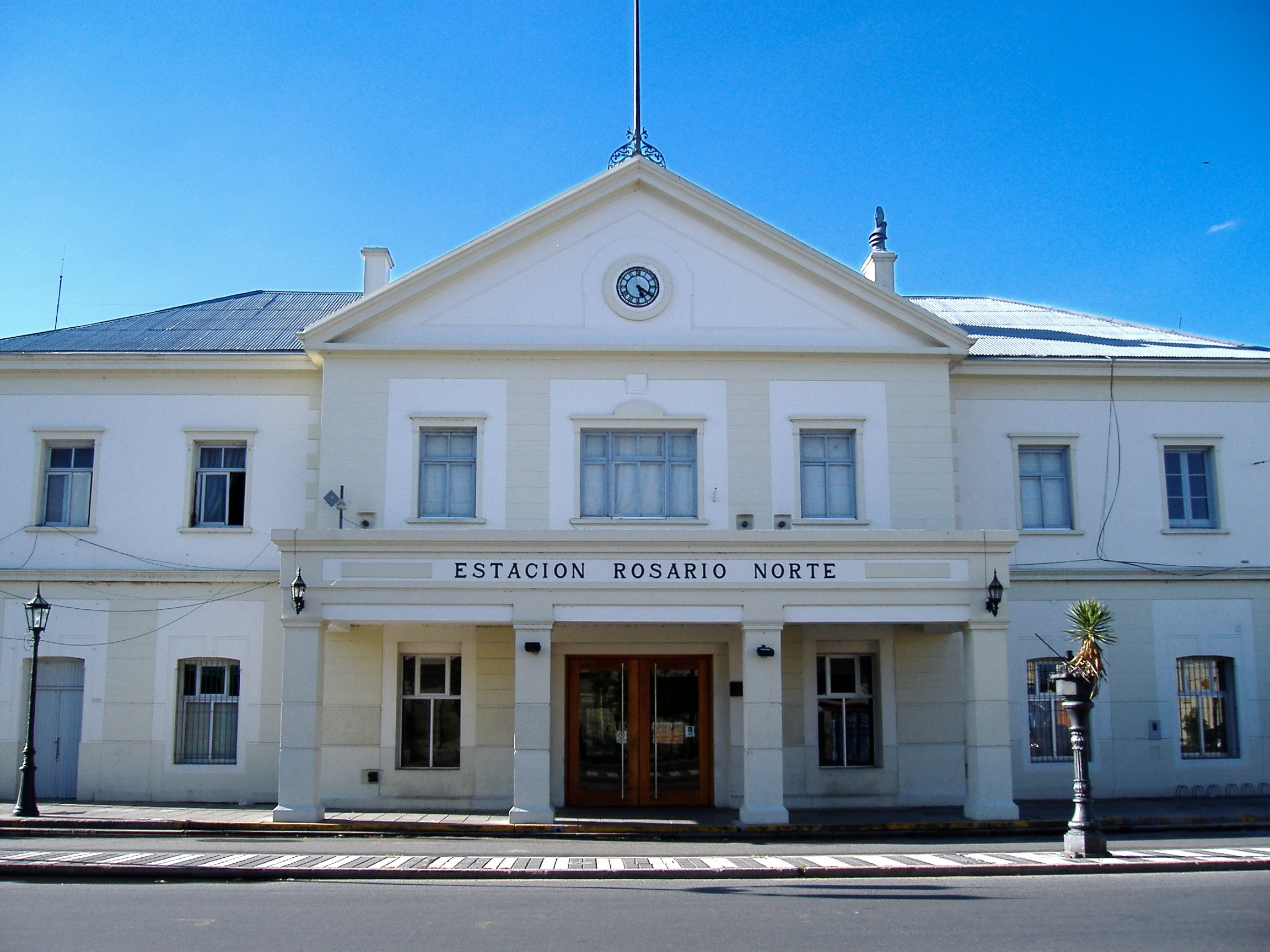 Estación Rosario Norte (North Rosario Station), a train station in Rosario, Argentina. This is an old station that has only recently been restored and re-functionalized. It is located in the north-center part of the city, in the barrio of Pichincha. This picture was taken by Pablo D. Flores on 11 March 2006.